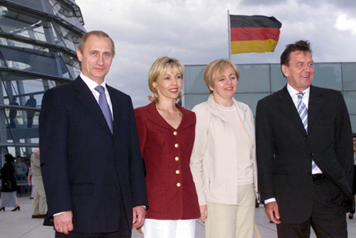 BERLIN. President Vladimir Putin and his wife Lyudmila, Gerhard Schroeder and his wife Doris Schroeder-Kepf on the roof of the Reichstag building.